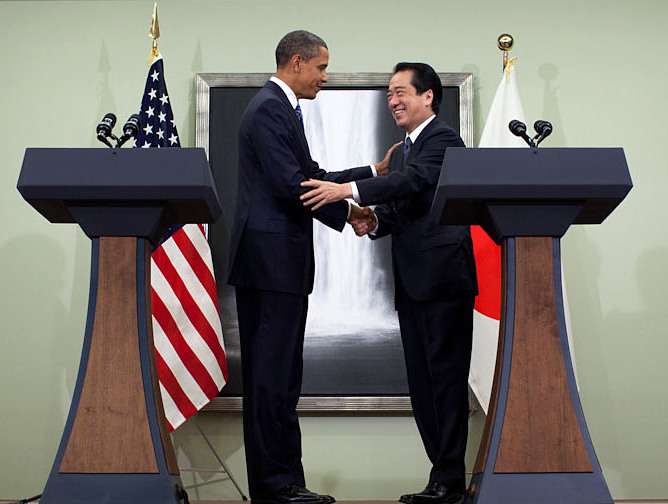 Barack Obama, President, and Naoto Kan, Prime Minister, shaked hands following their statement to the press at the InterContinental Yokohama Grand in Yokohama City, Kanagawa Prefecture on November 13, 2010.